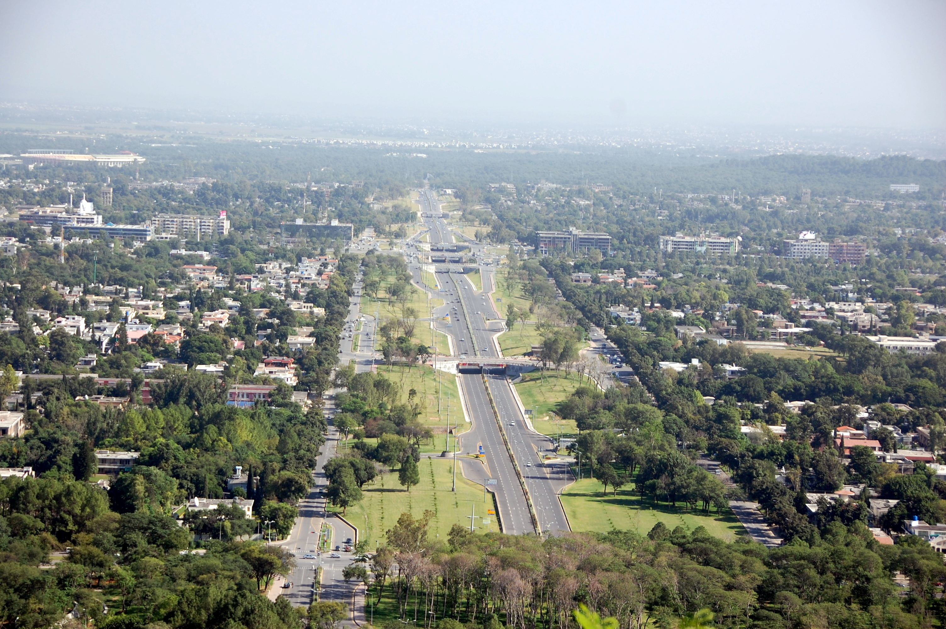 7th Avenue in Islamabad. Photograph taken from Damn-e-Koh, Islamabad